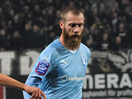 Jo Inge Berget during the men's Fotbollsallsvenskan soccer game AIK-Malmö FF (2-1) at the Friends Arena in Solna, Sweden on 4 October 2015.